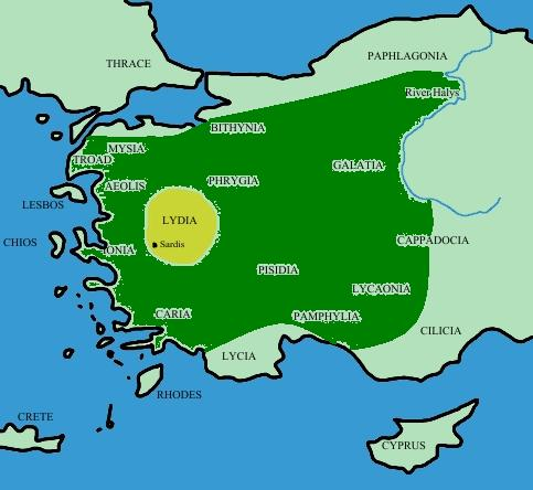 Area of Lydia and Lydian Empire